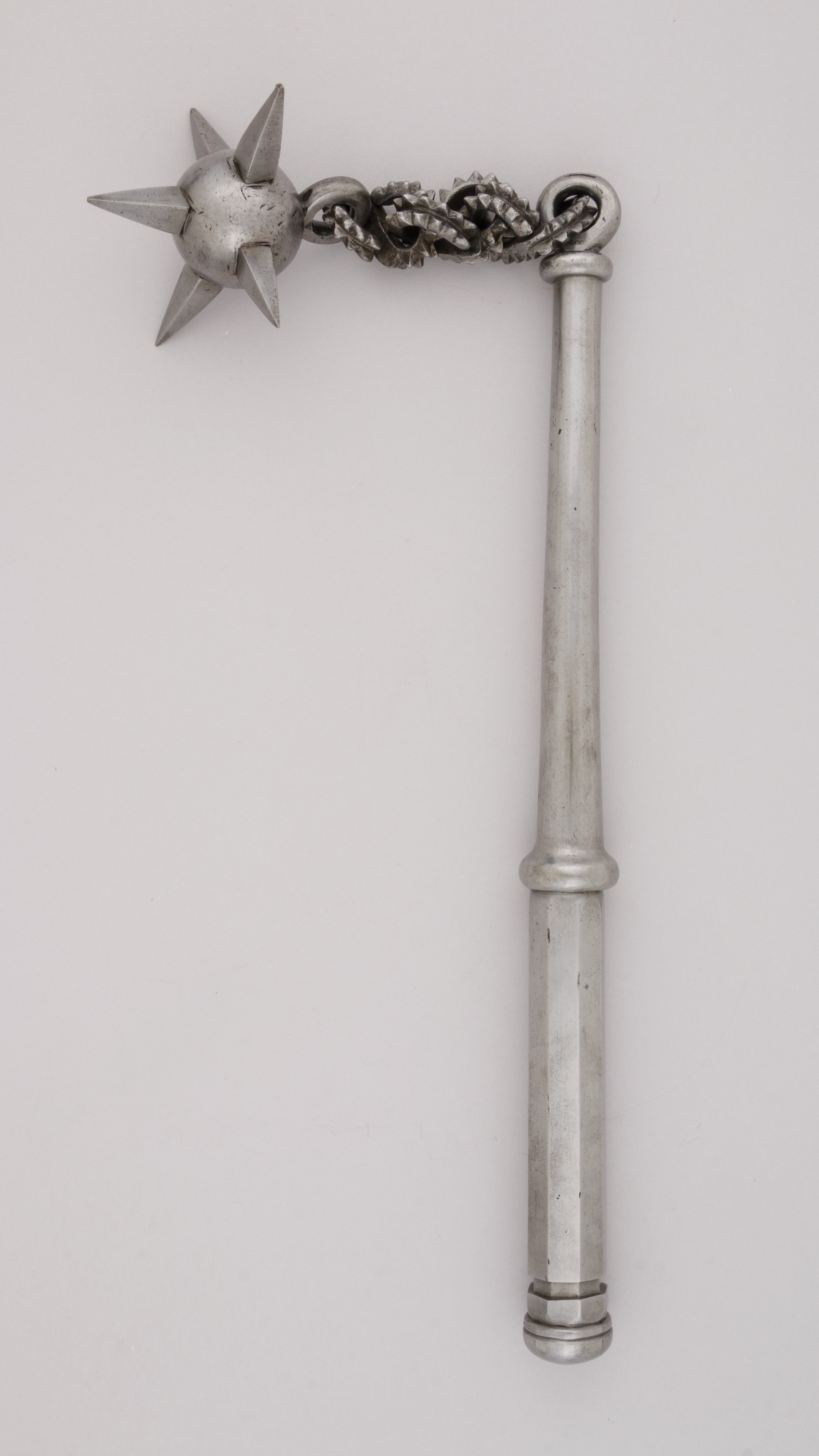 possibly German; Military flail; Shafted Weapons